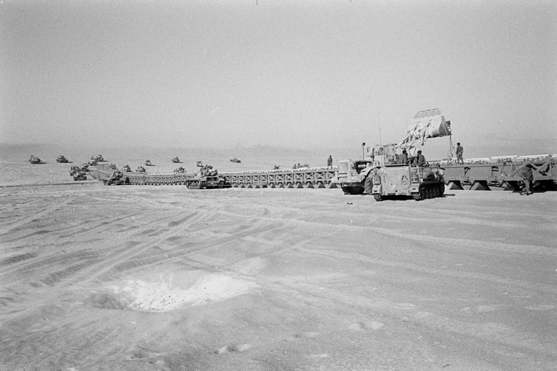 The Pontoon bridge on it's way to the Suez Canal